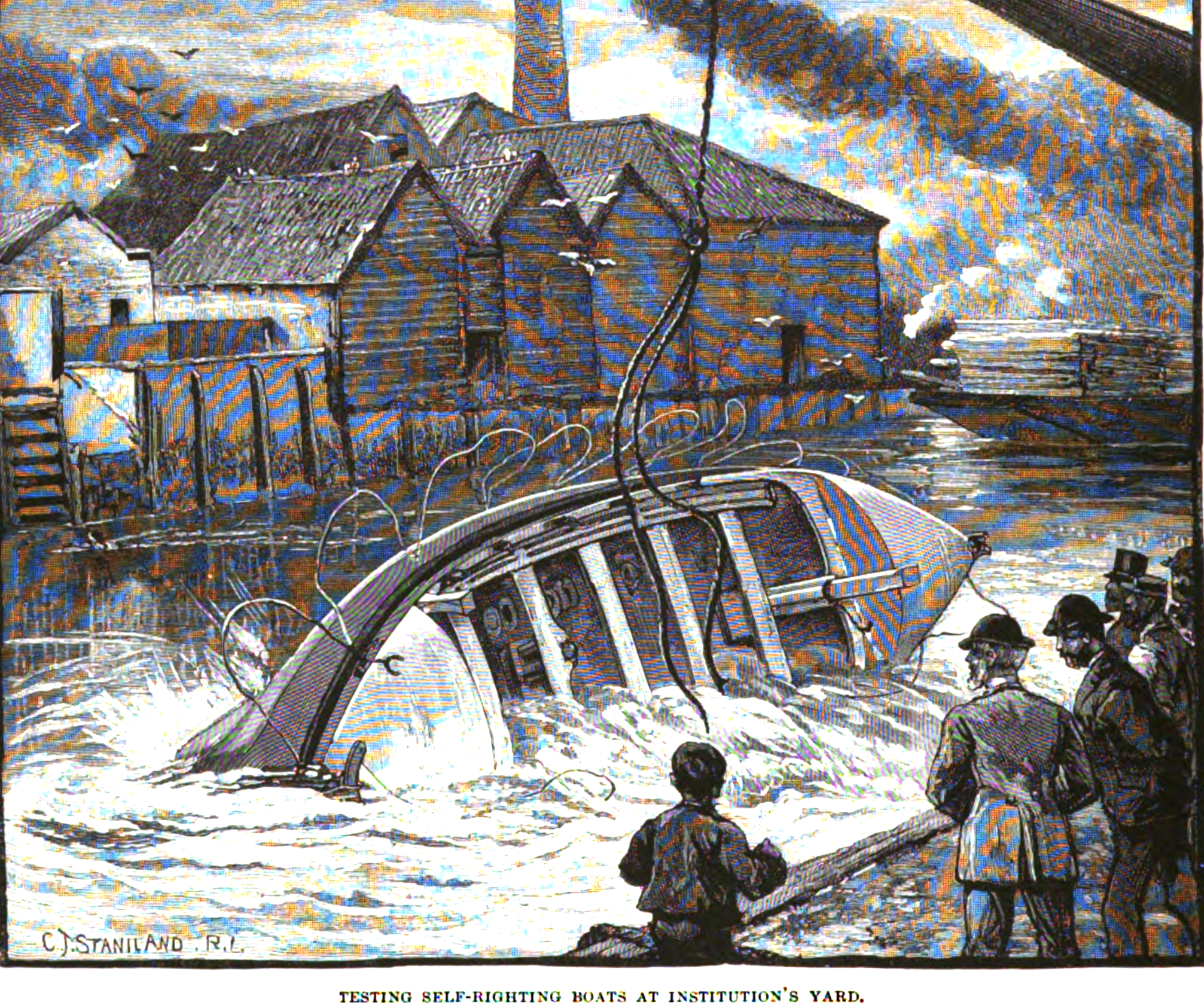 A lifeboat's self-righting power is tested by tipping it over with a crane at the Royal National Lifeboat Institution's store yard beside the Limehouse Cut c.1885